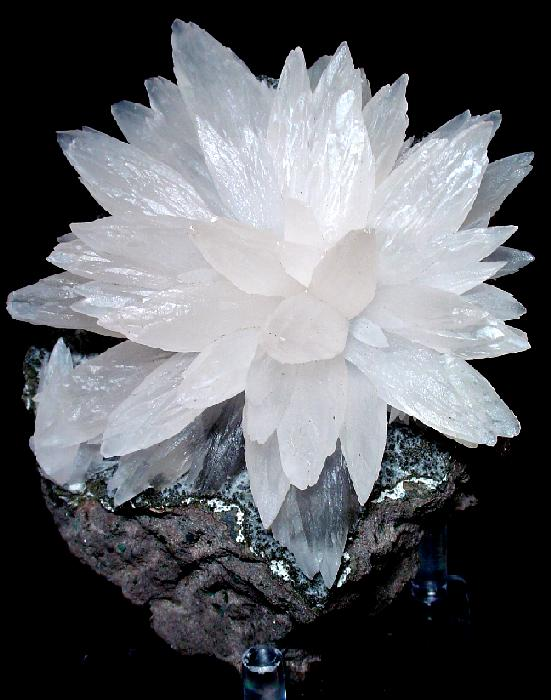 Calcite Locality: Iraí, Alto Uruguai region, Rio Grande do Sul, South Region, Brazil (Locality at ) A GORGEOUS and pristine radiating CABINET spray of lustrous, translucent and colorless wheatsheaf calcite crystals on matrix from Irai, Brazil. Far better than the usual Brazilian calcites that you see. Large and impressive specimens! 13.4 x 10.5 x 6.5 cm